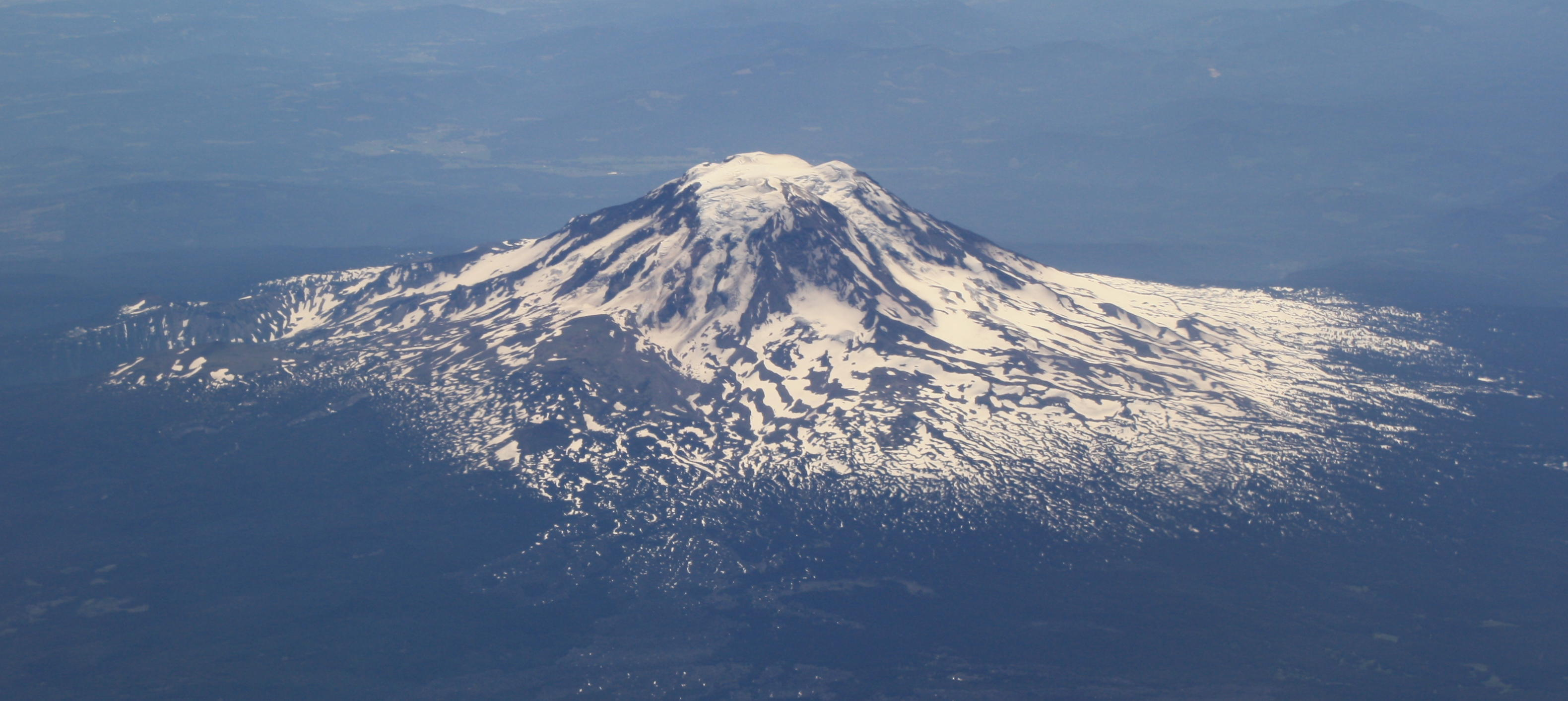 An aerial view of Mount Adams, a potentially active stratovolcano in the Cascade Range of Washington State, USA.